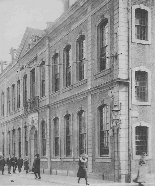 Hôtel d'Ansembourg, Liège, Belgium. Architect: Johann Joseph Couven, 1738-41. Unknown photographer, ±1910